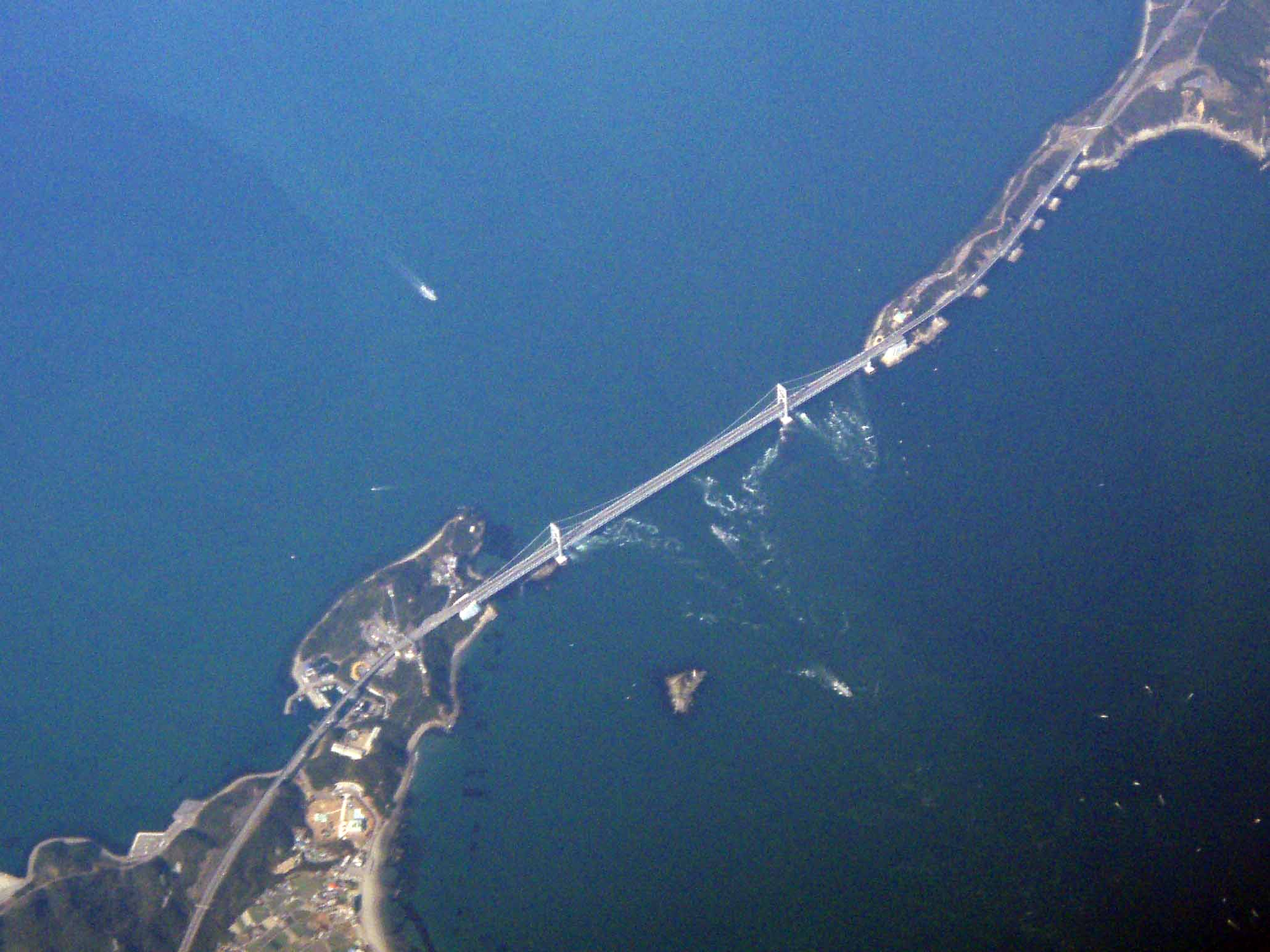 Aerial Photograph of Naruto strait at JAPAN in 2007.